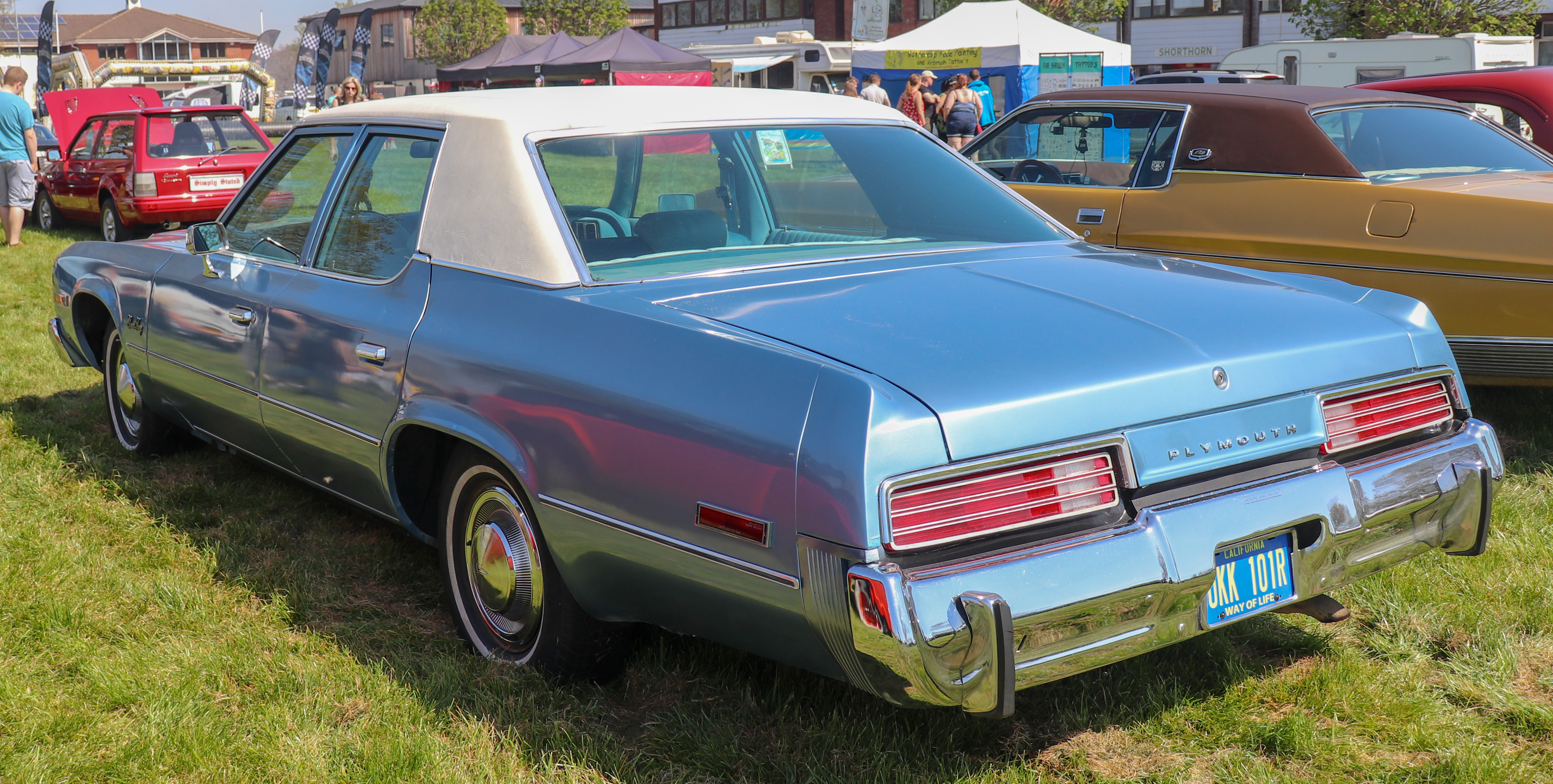 1977 Plymouth Gran Fury 5.9 Rear Taken at the Midlands Auto Fest 2019 NAEC Stoneleigh, Stoneleigh, Coventry